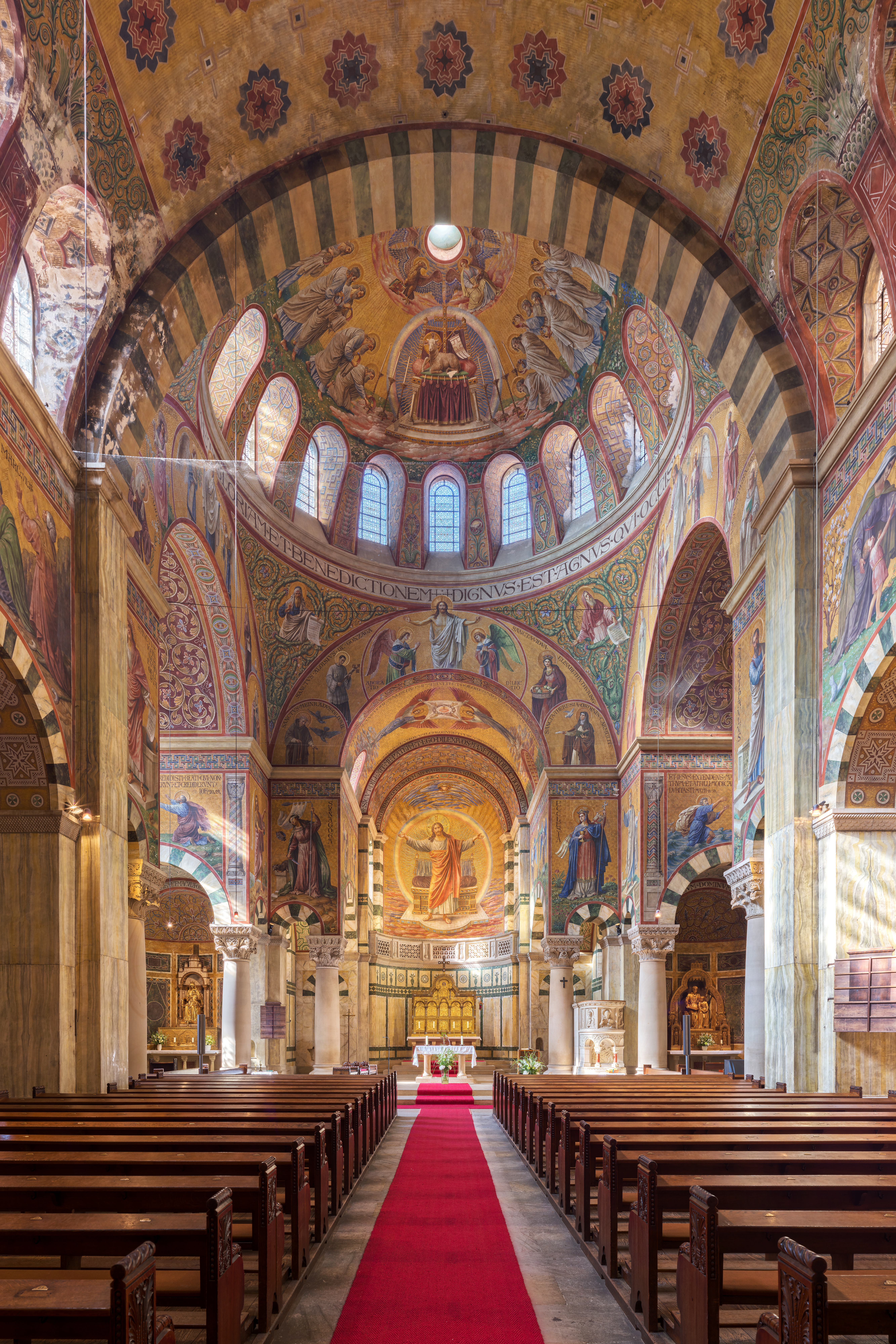 Nave of the Herz-Jesu-Kirche in Berlin-Prenzlauer Berg.